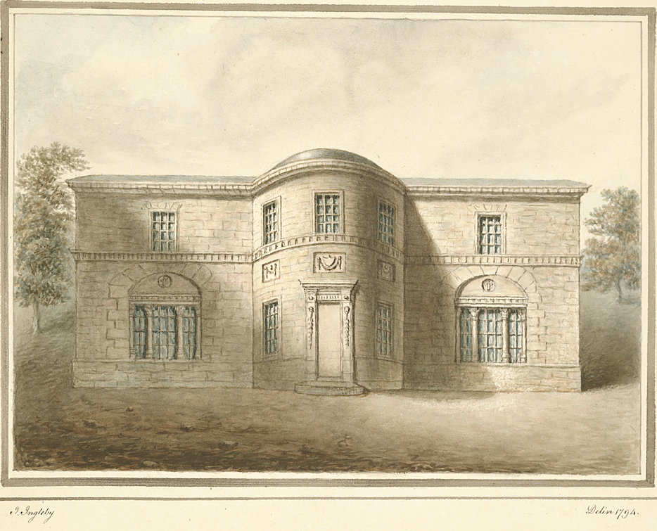 Kinmel Park, St Asaph by John Ingleby 1794